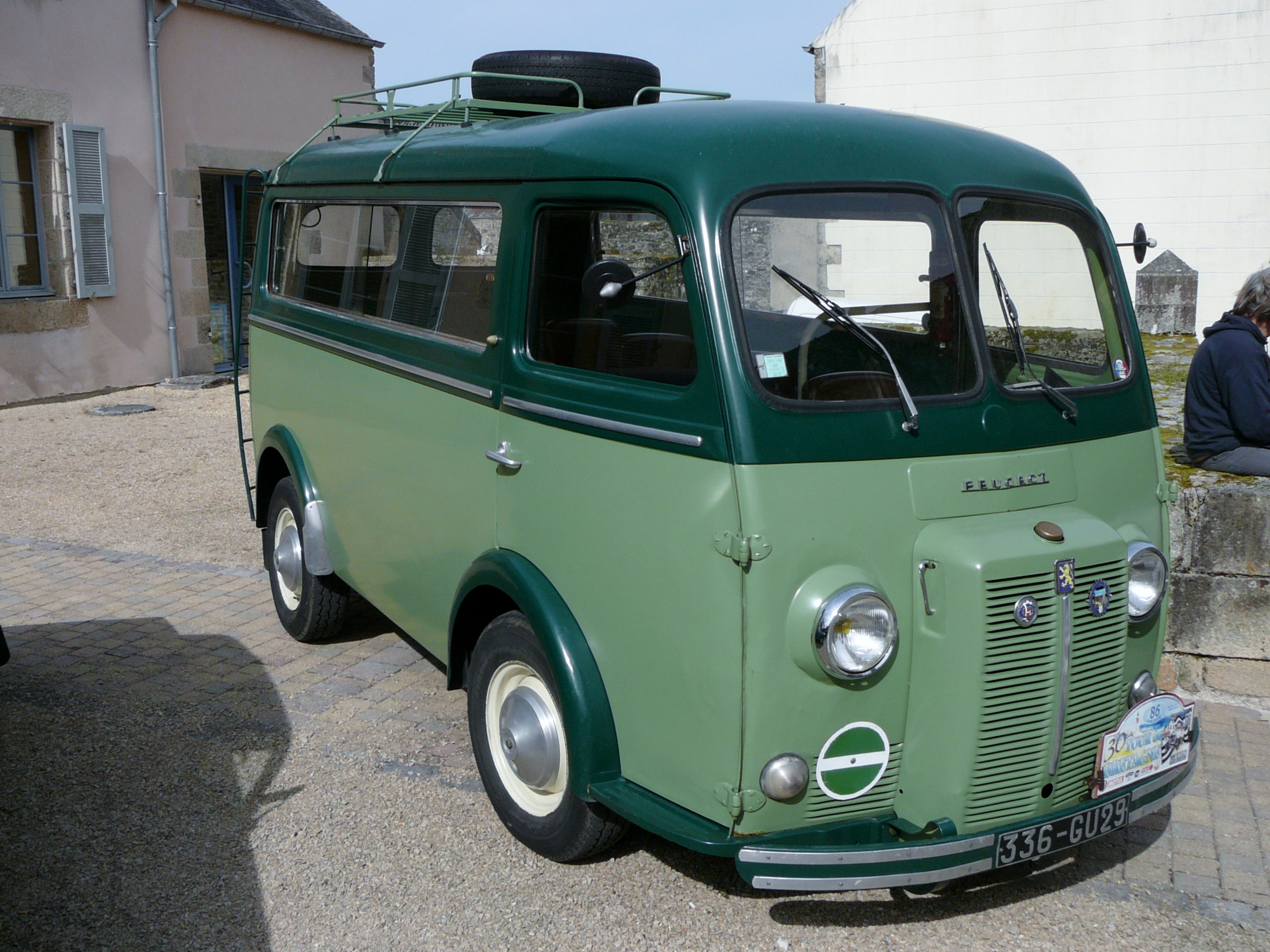 Minibus Peugeot D4A in Guerlesquin